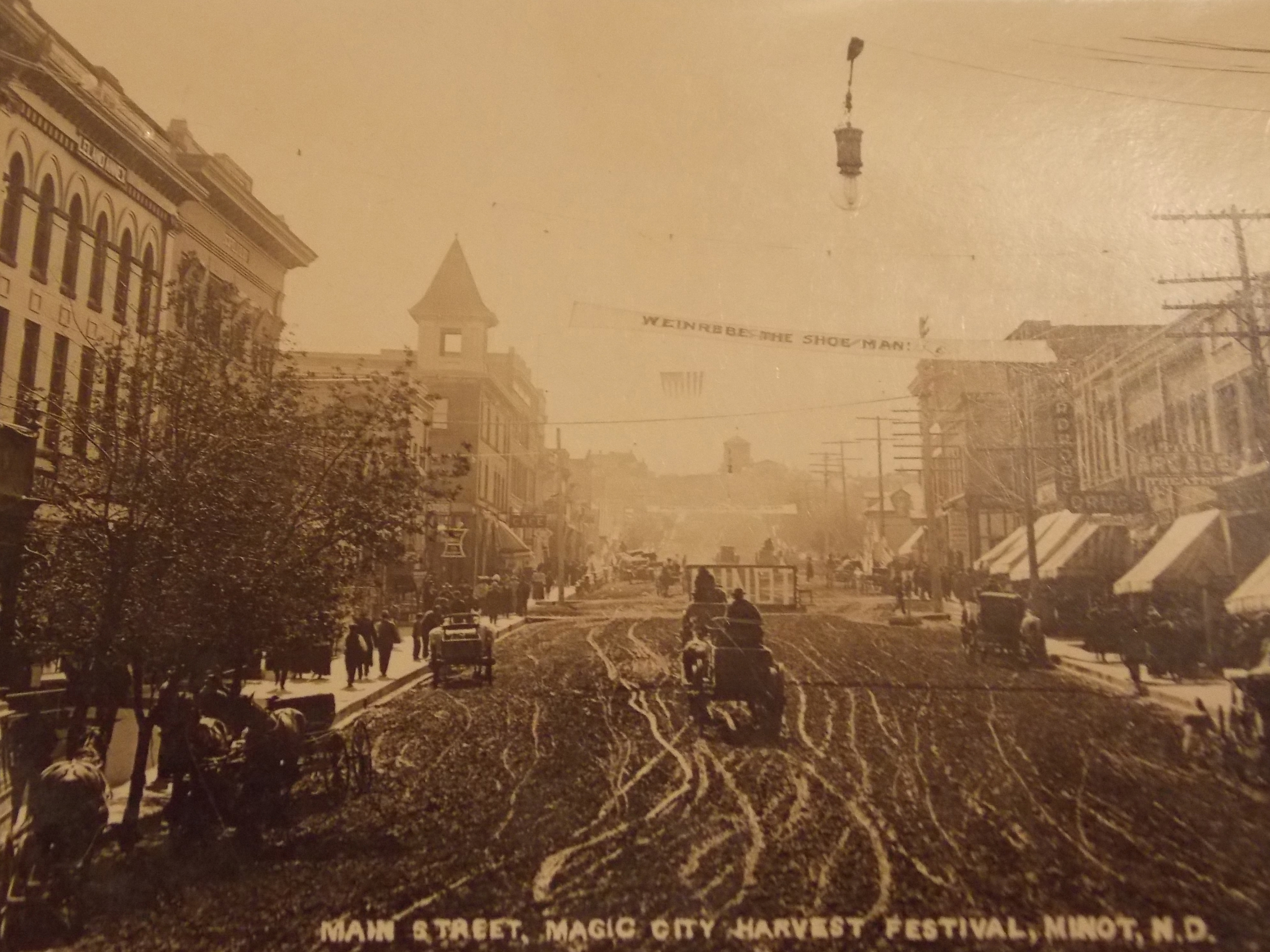 Magic City Harvest Festival - looking south on Main Street, Minot,North Dakota in 1909